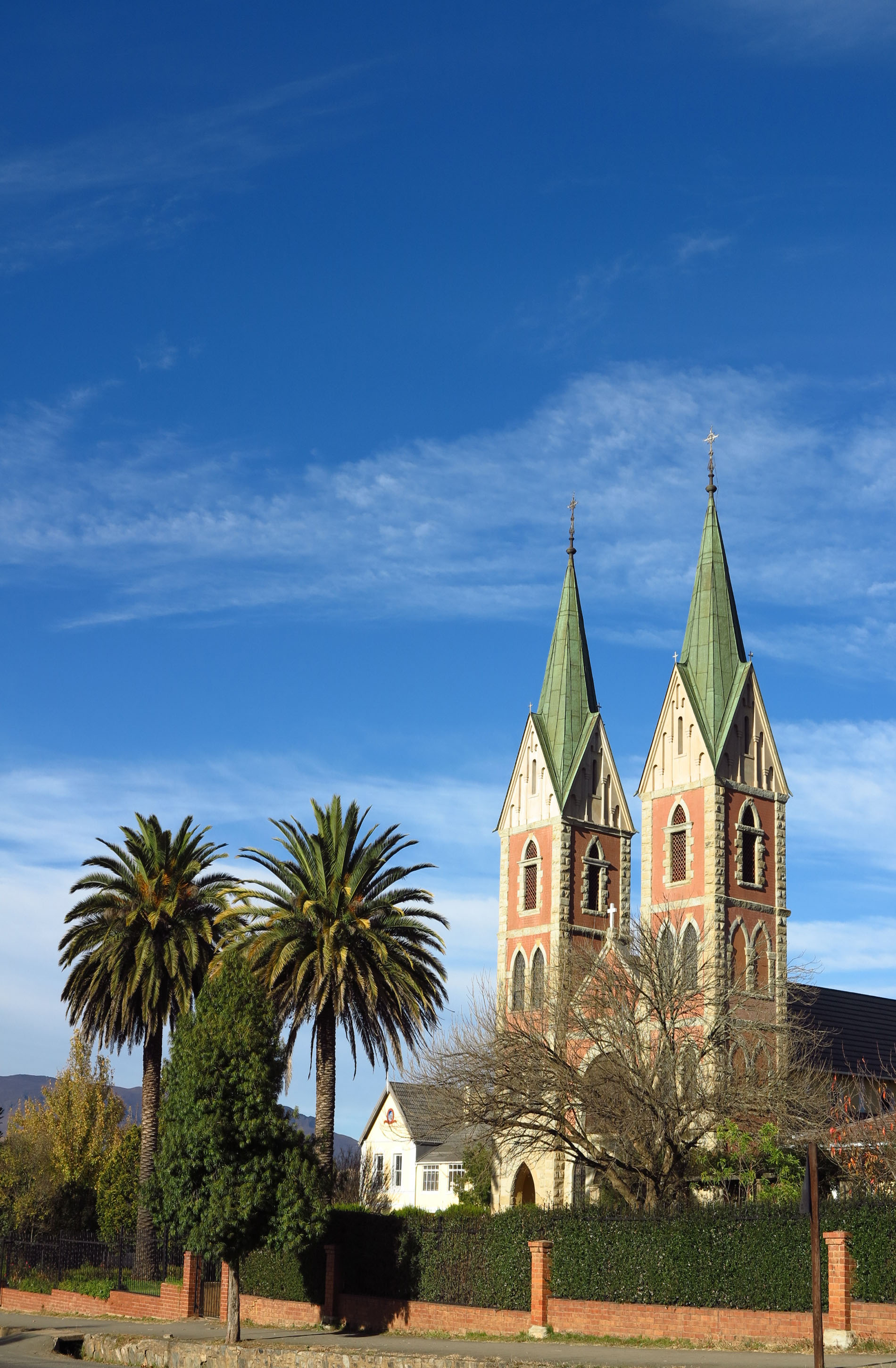 St Patricks Cathedral in Kokstad replaced older buildings on 27 February 1924 and dominates the town.The original Cathedral was built in 1884 by Cape Mounted Riflemen. This media shows a South African Protected Site with SAHRA file reference New.